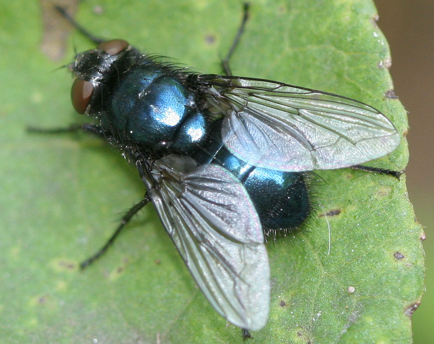 Adult Protophormia terraenovae, photographed near Moscow, Russia on August 22, 2007.